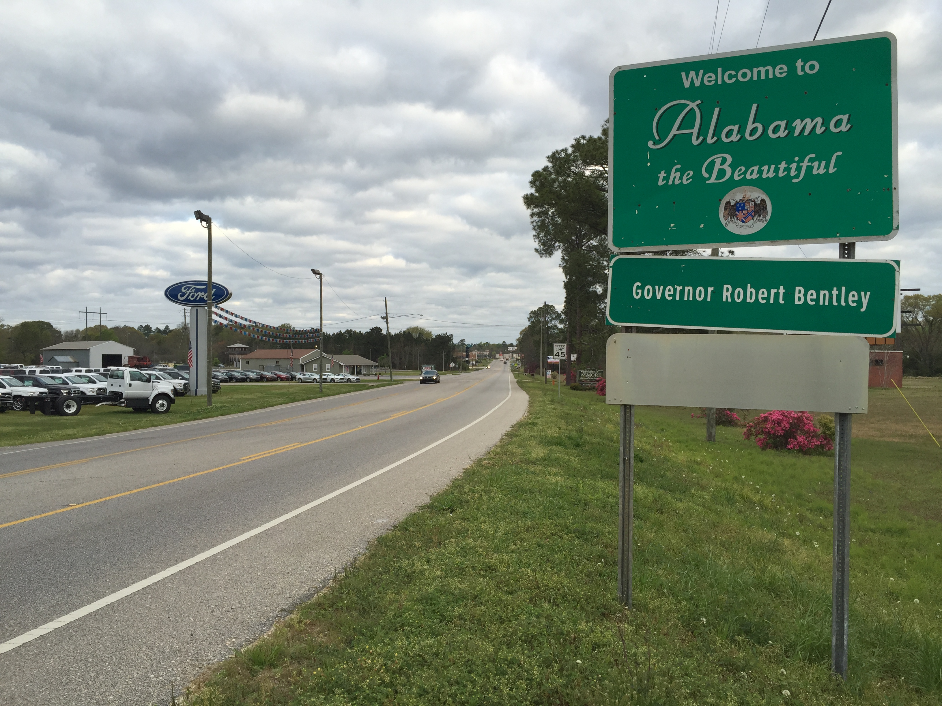 "Welcome to Alabama" sign along northbound Alabama State Route 21 entering Atmore, Alabama from Escambia County, Florida